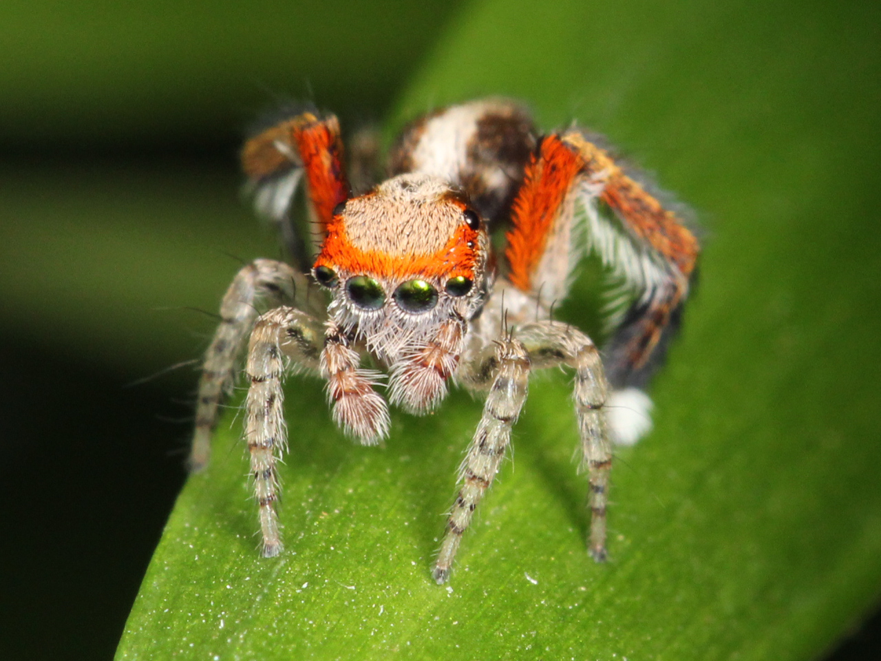 Adult male Saitis barbipes jumping spider from Barcelona